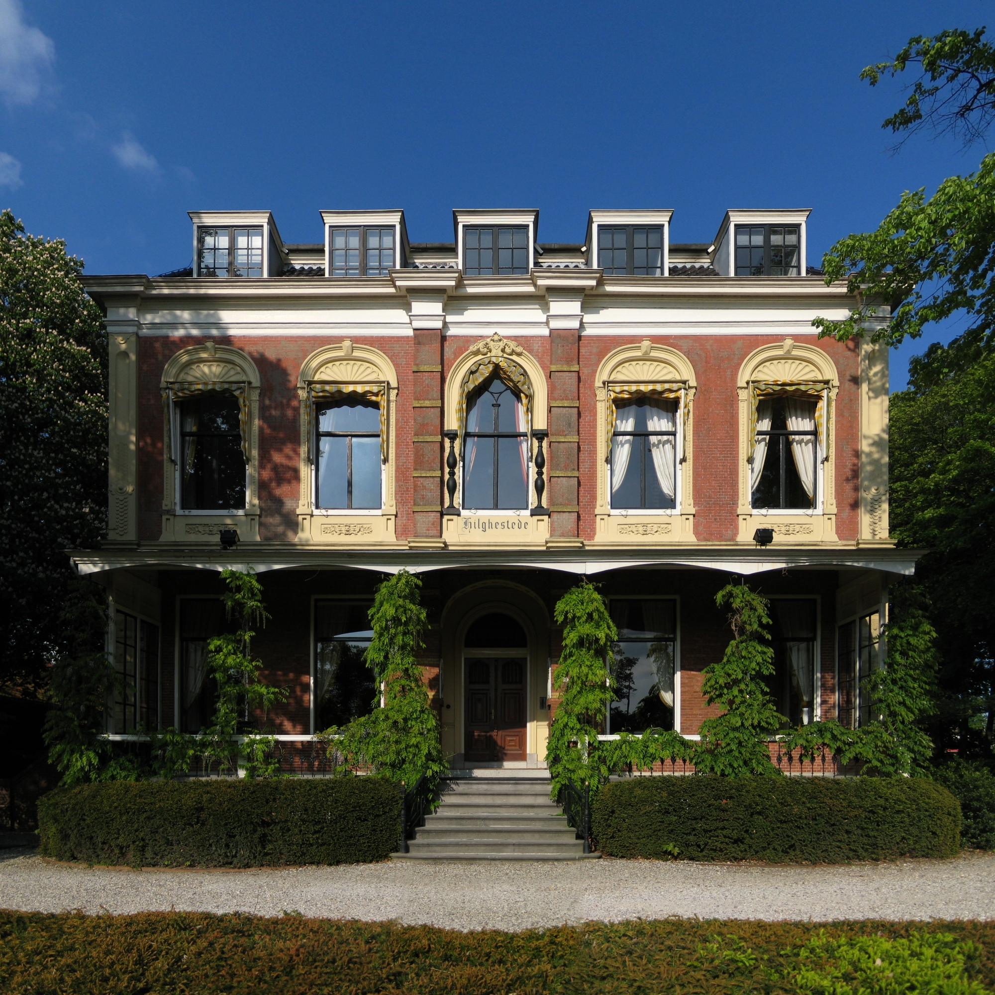 Villa (1895) in the Dutch city of Groningen.